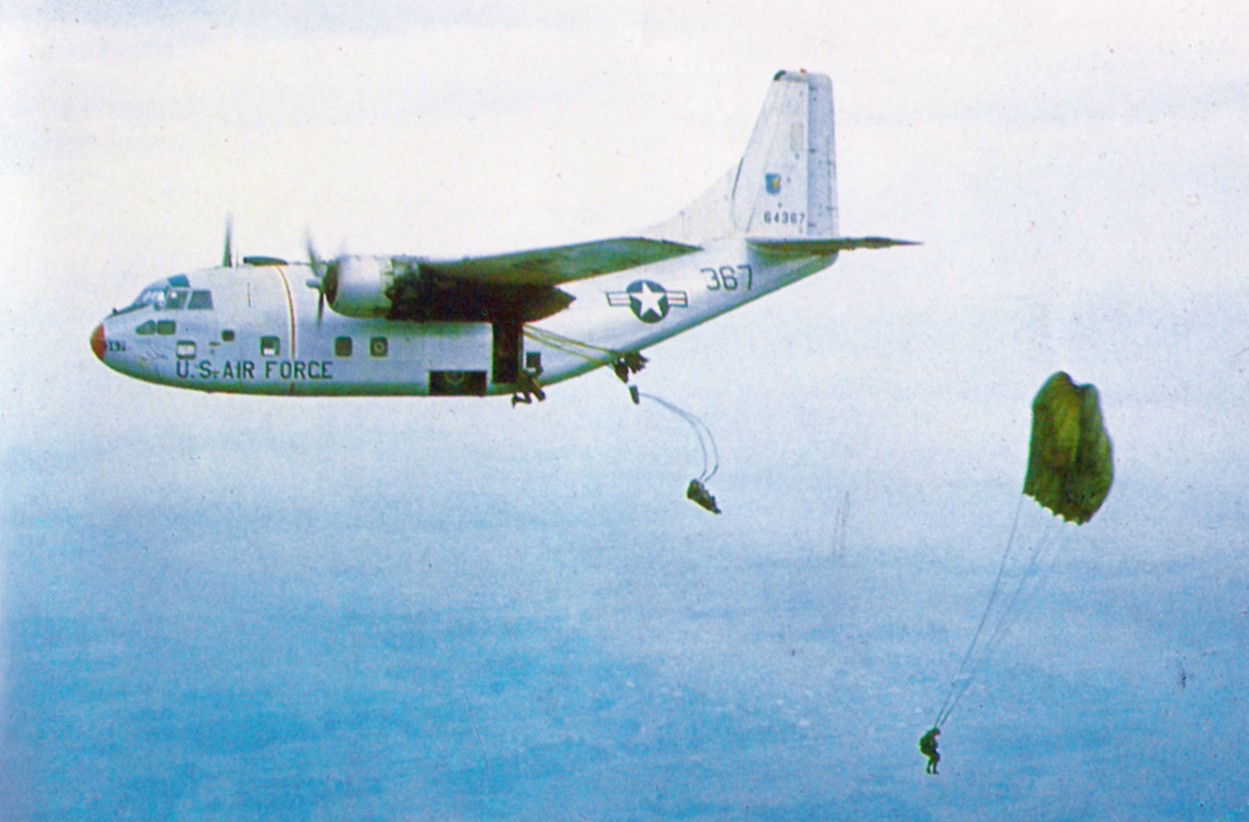 South Vietnamese paratroopers jump out of a U.S. Air Force Fairchild C-123B Provider (s/n 56-4367) of the 464th Troop Carrier Wing during a training exercise in April 1966. This plane belly-landed at Tau Tieng after being hit by small arms fire on 26 November 1966.